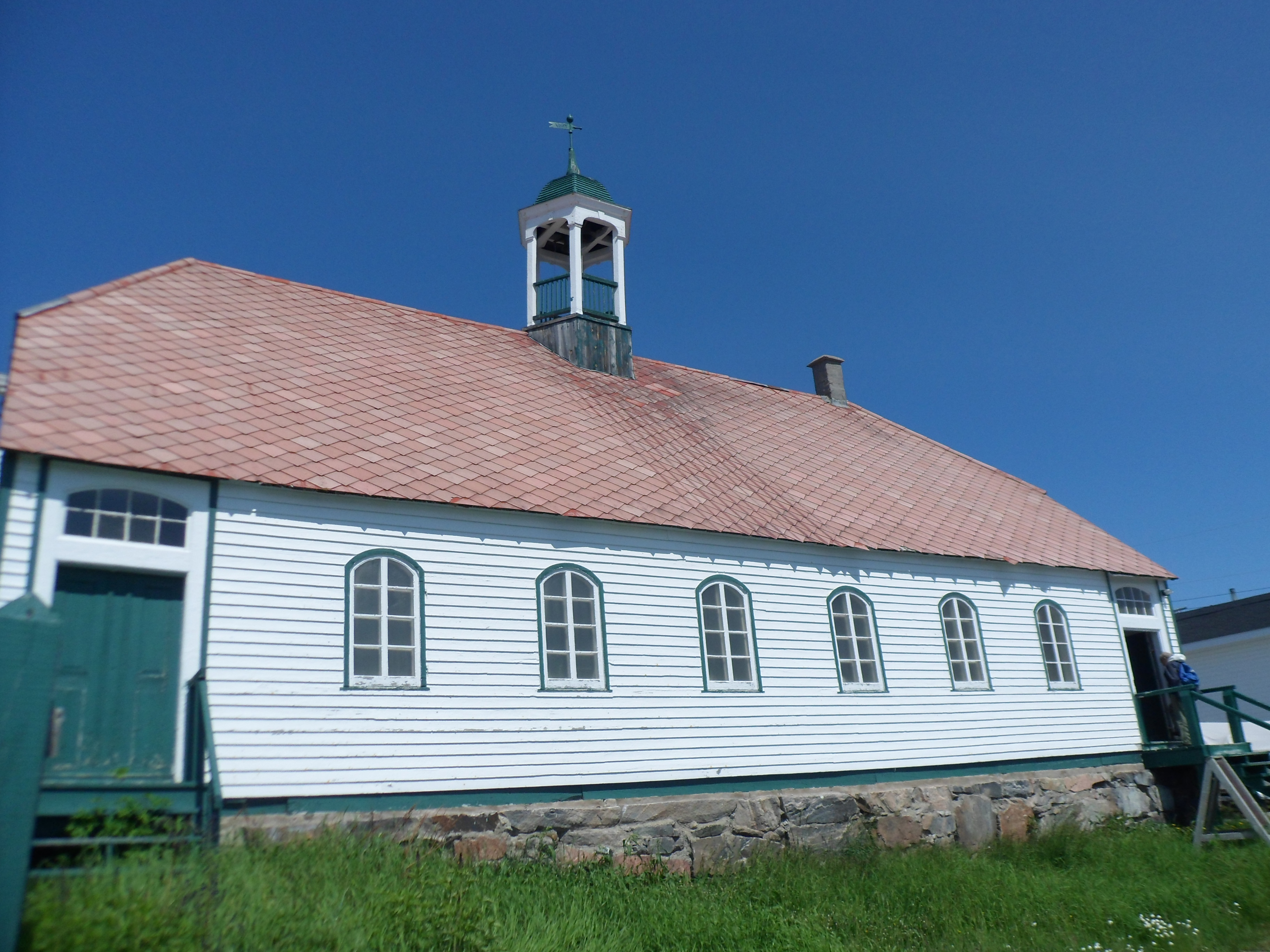 Hopedale Mission National Historic Site of Canada